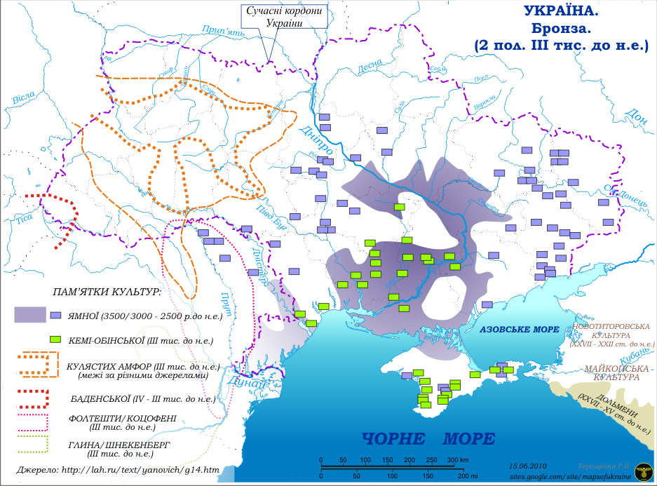 Early Bronze Age in Ukraine (2nd half of the third millennium BC.). Yamna culture